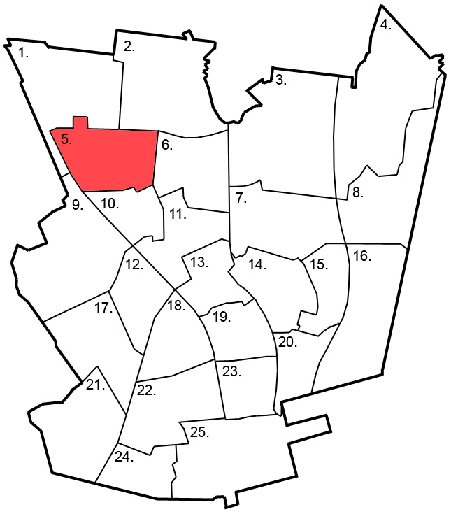 A map of neighbourhoods in the city of Järvenpää showing the location of Jamppa in red. The names of the other individual neighbourhoods are listed below. Finnish: Kartta Järvenpään kaupunginosista, Jampan kaupunginosa punaisella. Kaikkien kaupunginosien nimet ovat alla olevassa listassa. 1. Wärtsilä 2. Nummenkylä 3. Pietilä 4. Haarajoki 5. Jamppa 6. Peltola 7. Isokytö 8. Mylly 9. Saunakallio 10. Sorto 11. Pajala 12. Loutti 13. Pöytäalho 14. Terhola 15. Satumetsä 16. Mikonkorpi 17. Kaakkola 18. Keskus 19. Kinnari 20. Satukallio 21. Vanhakylä 22. Lepola 23. Kyrölä 24. Terioja 25. Ristinummi